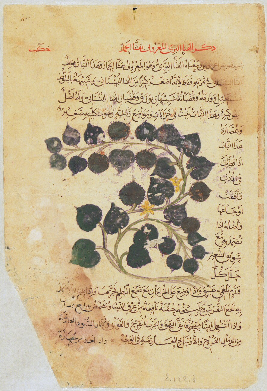 Wild Cucumber in Arabic Dioscorides. 13th century, Persia